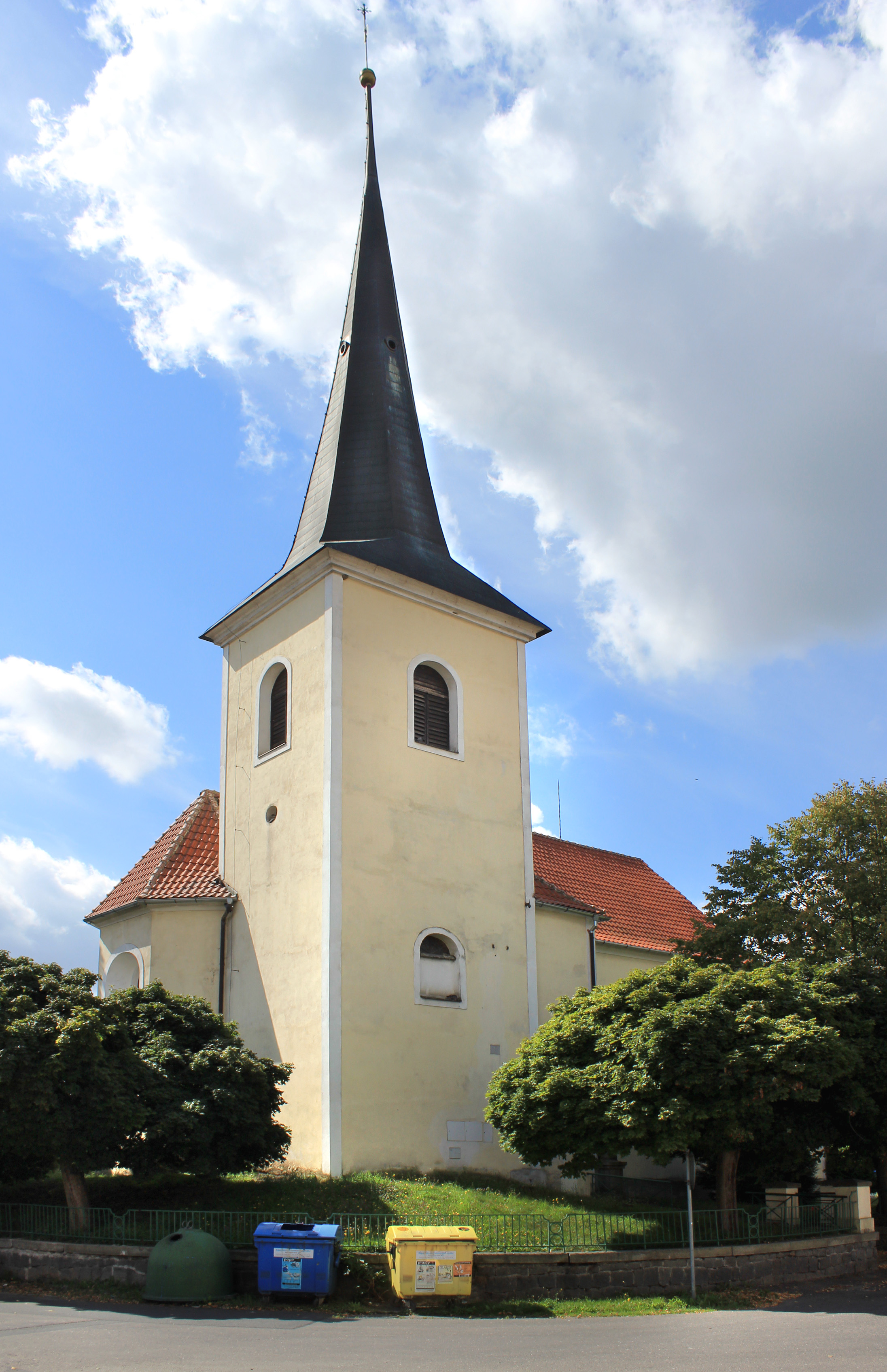 Church of Saint Peter and Saint Paul in Holýšov, Czech Republic.